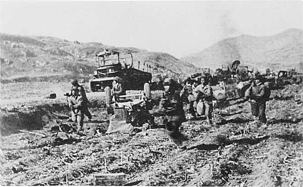 Chinese 39th Corps chasing after US 25th Division.